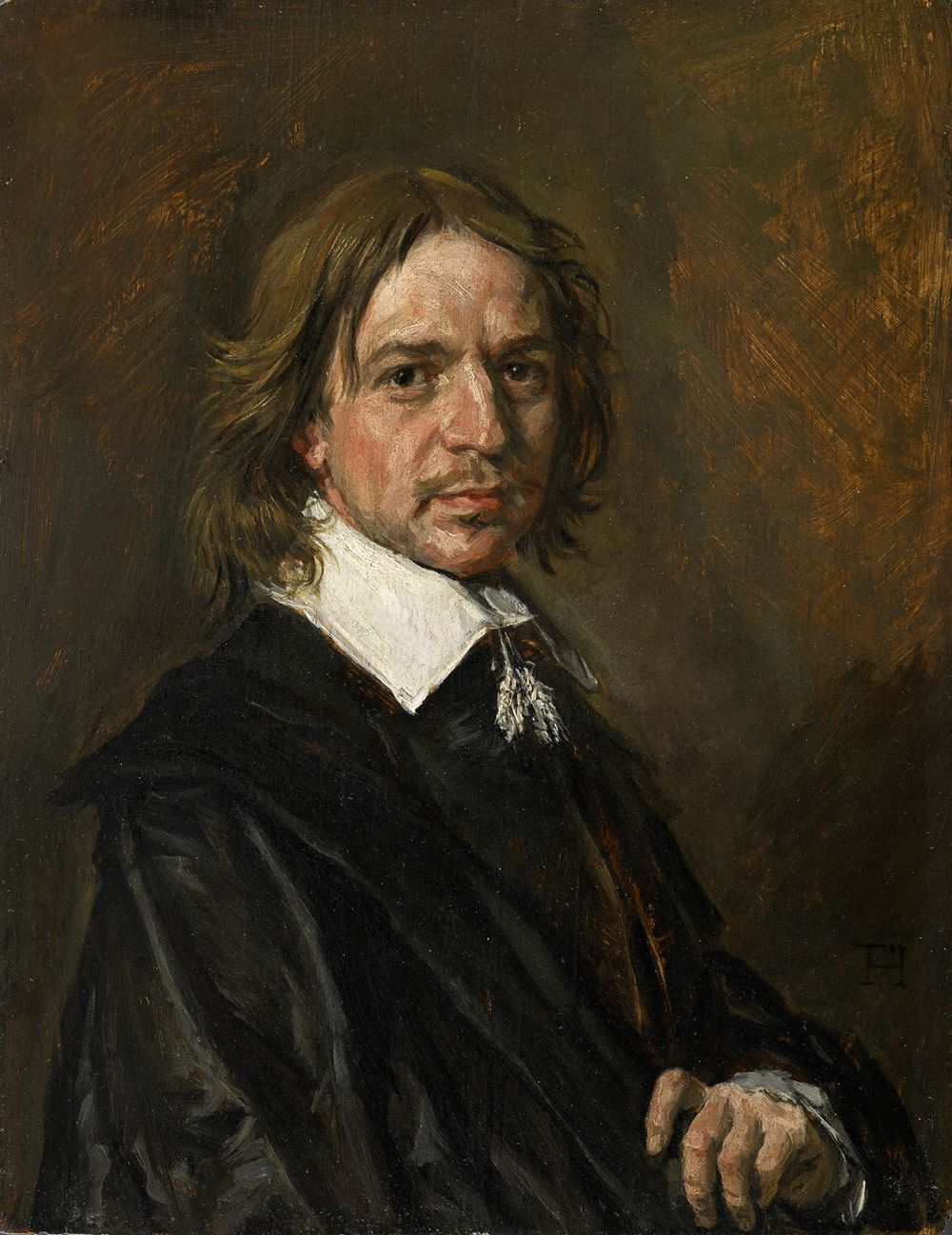 Portrait of a man with a tassle collar, declared in October 2016 to be a forgery[1]